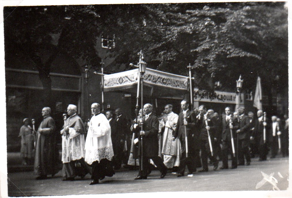 Procession in Berlin with Christoph Karst on the front left